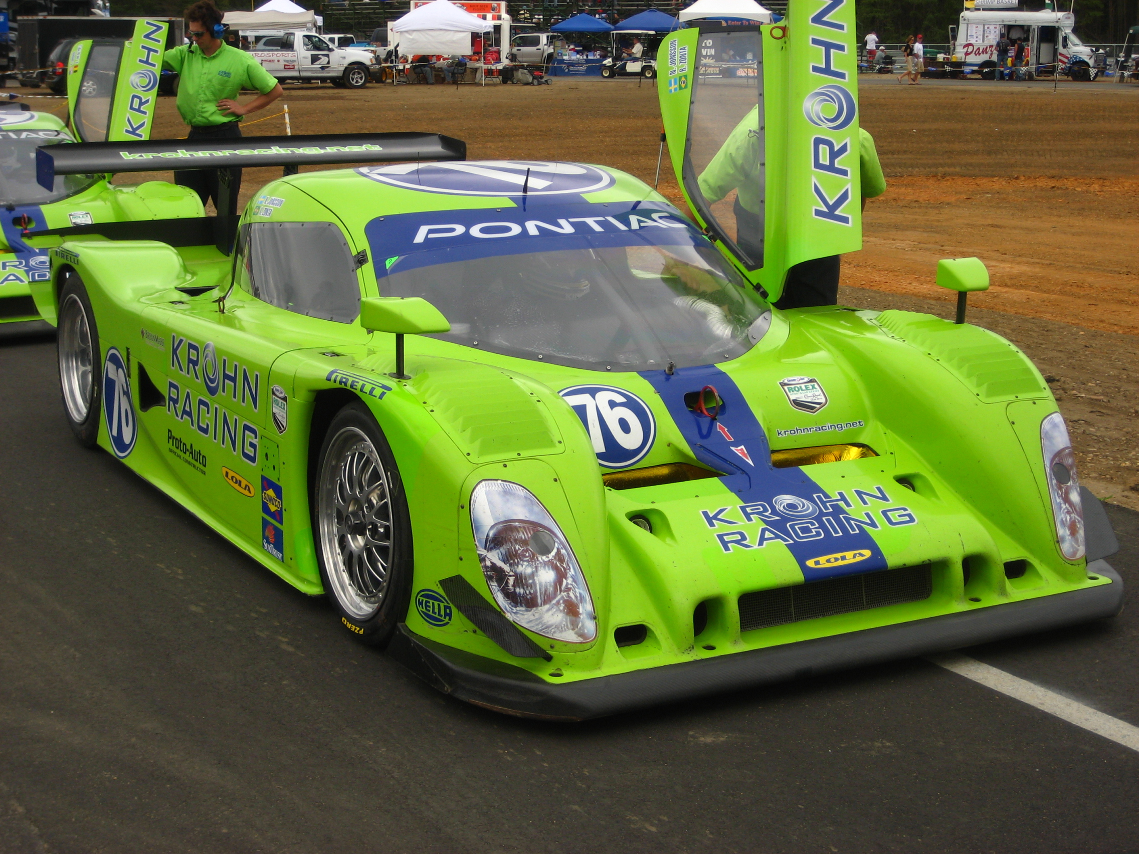 Krohn Racing's Lola-Pontiac at the 2008 Supercar Life 250 at New Jersey Motorsports Park.